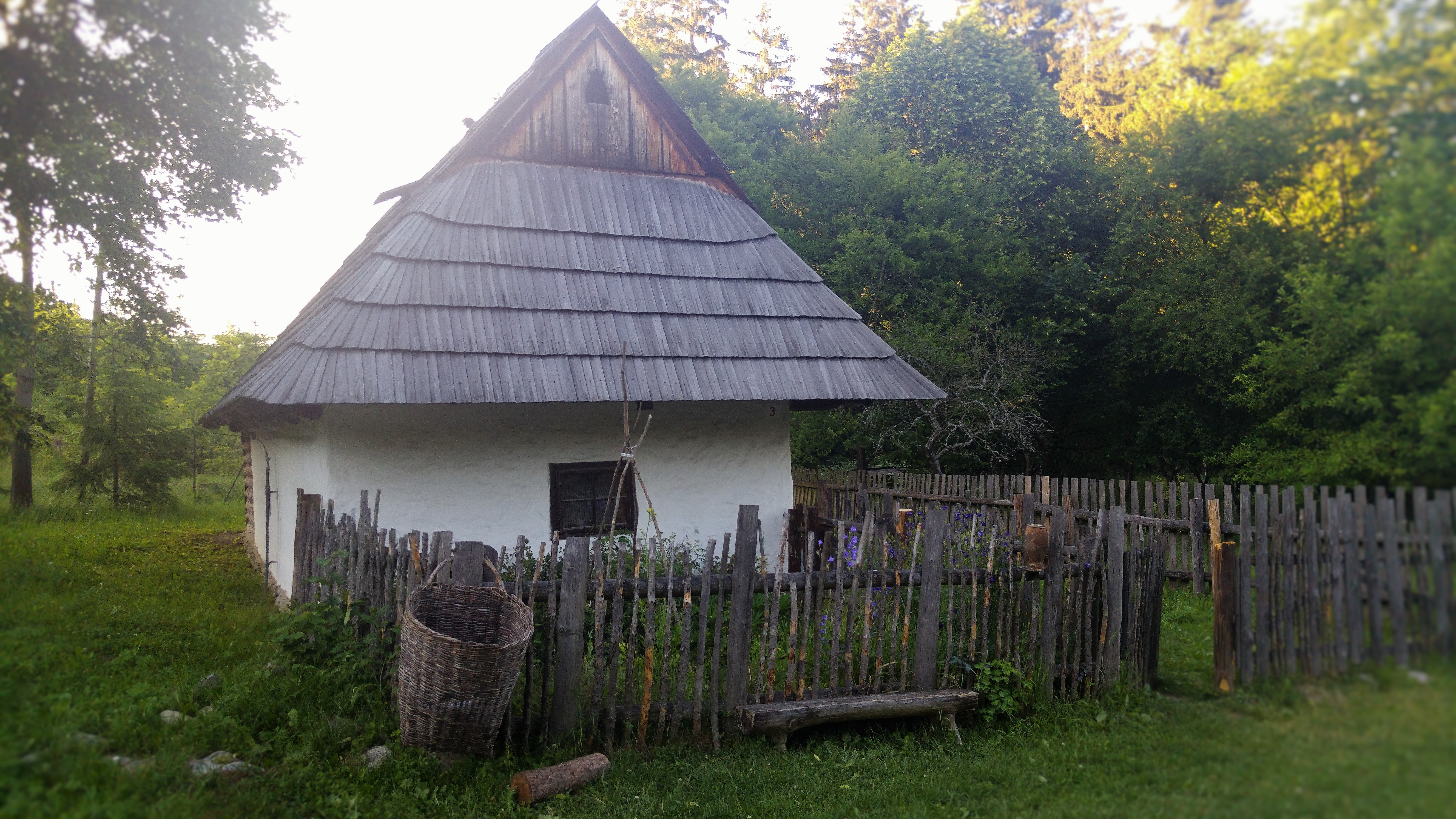 Open-air museum in Martin, Slovakia